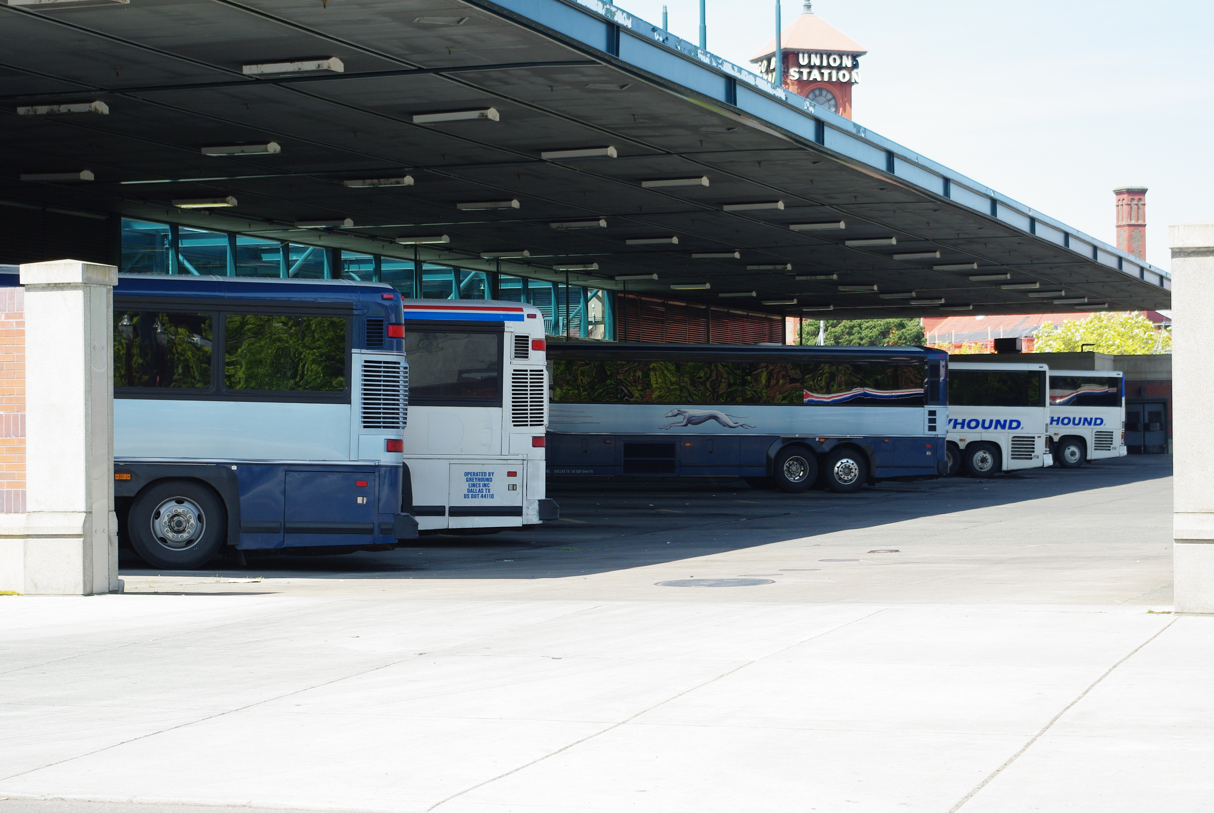 Buses at the Greyhound bus depot in northwest Portland, Oregon.